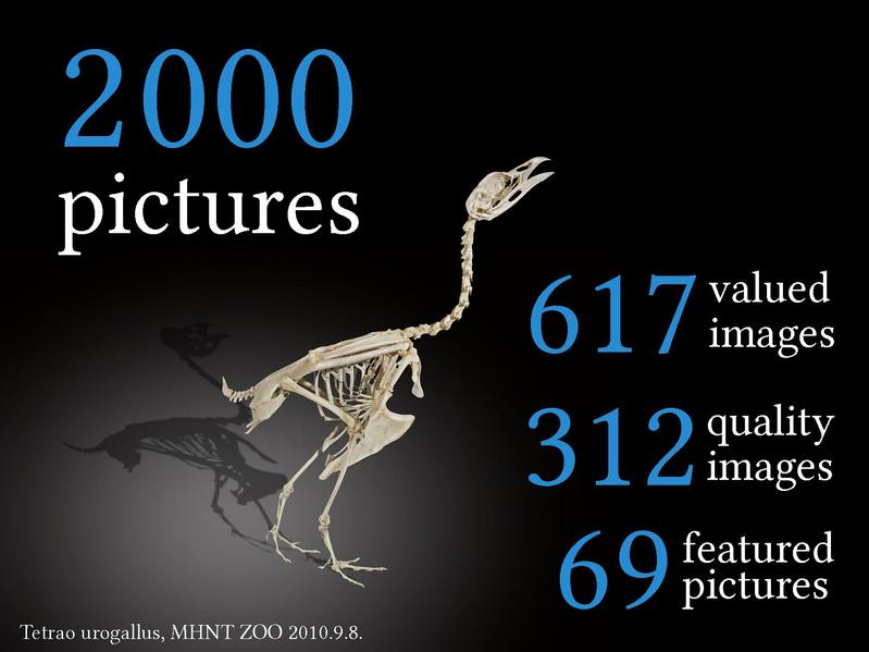 Slide from Projet Phoebus - GlamWiki UK 2013 presentation